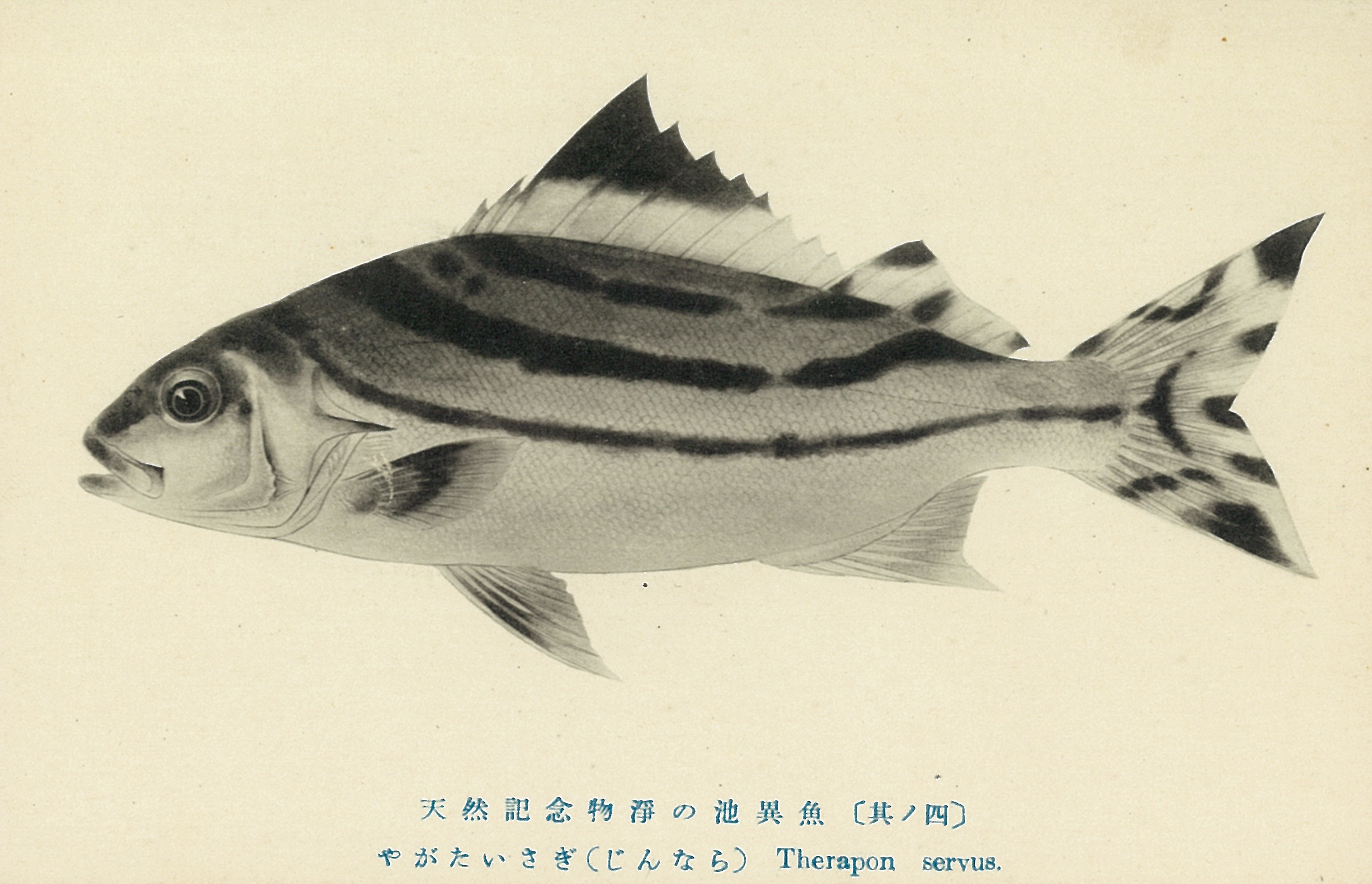 Jono-ike pond postcard. Terapon jarbua.1936